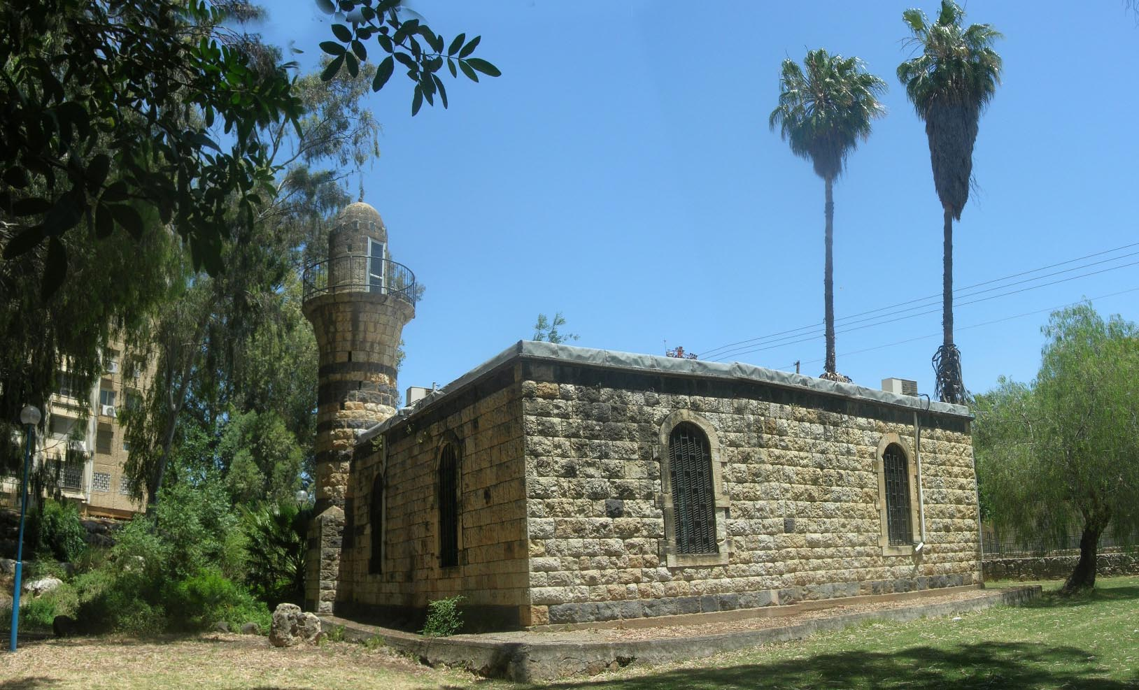 The mosque of Al-Khalsa, today the Museum for the history of Kiryat Shmona